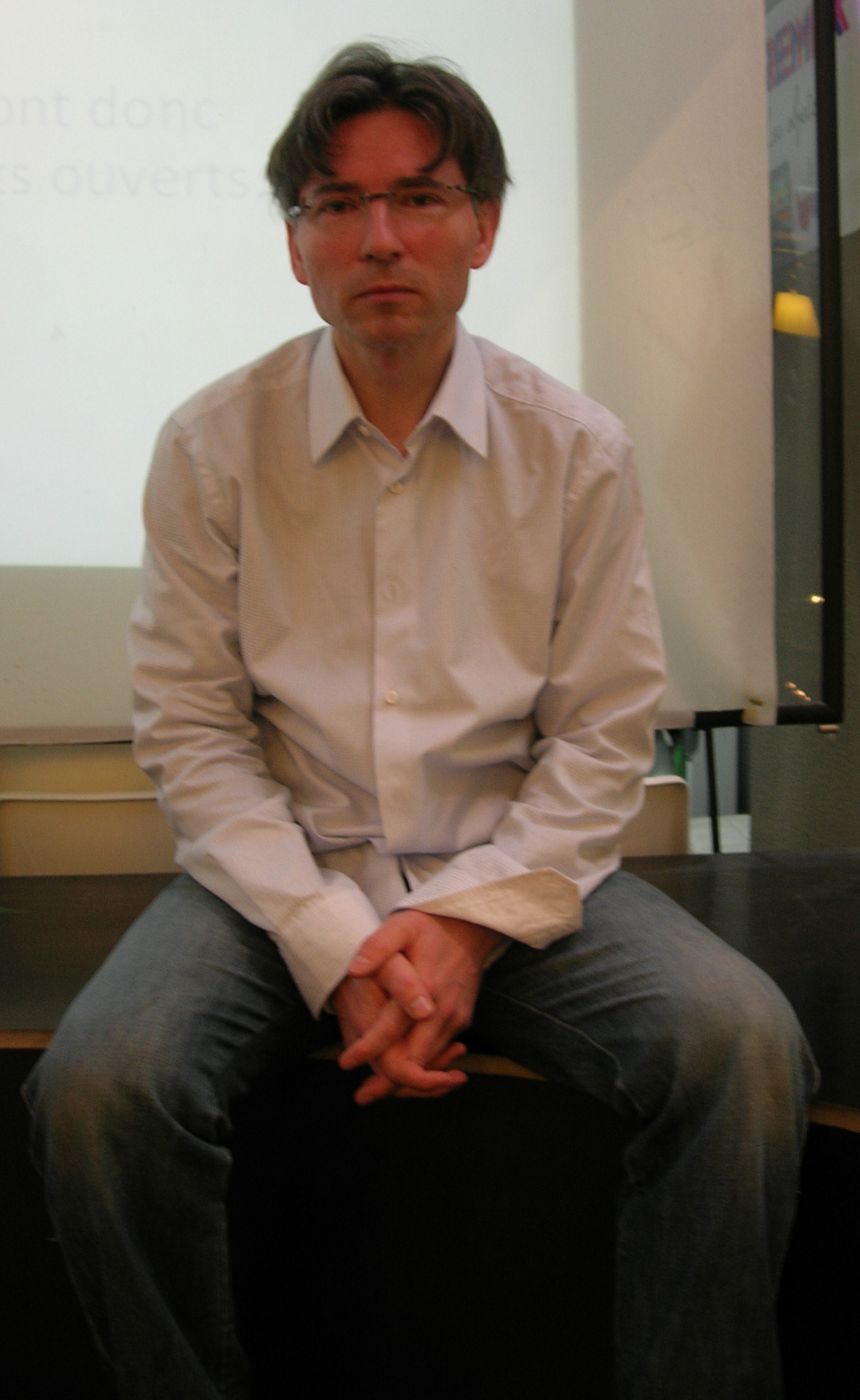 Serge Humpich at "La Cantine" in Paris after a conference on hacking.